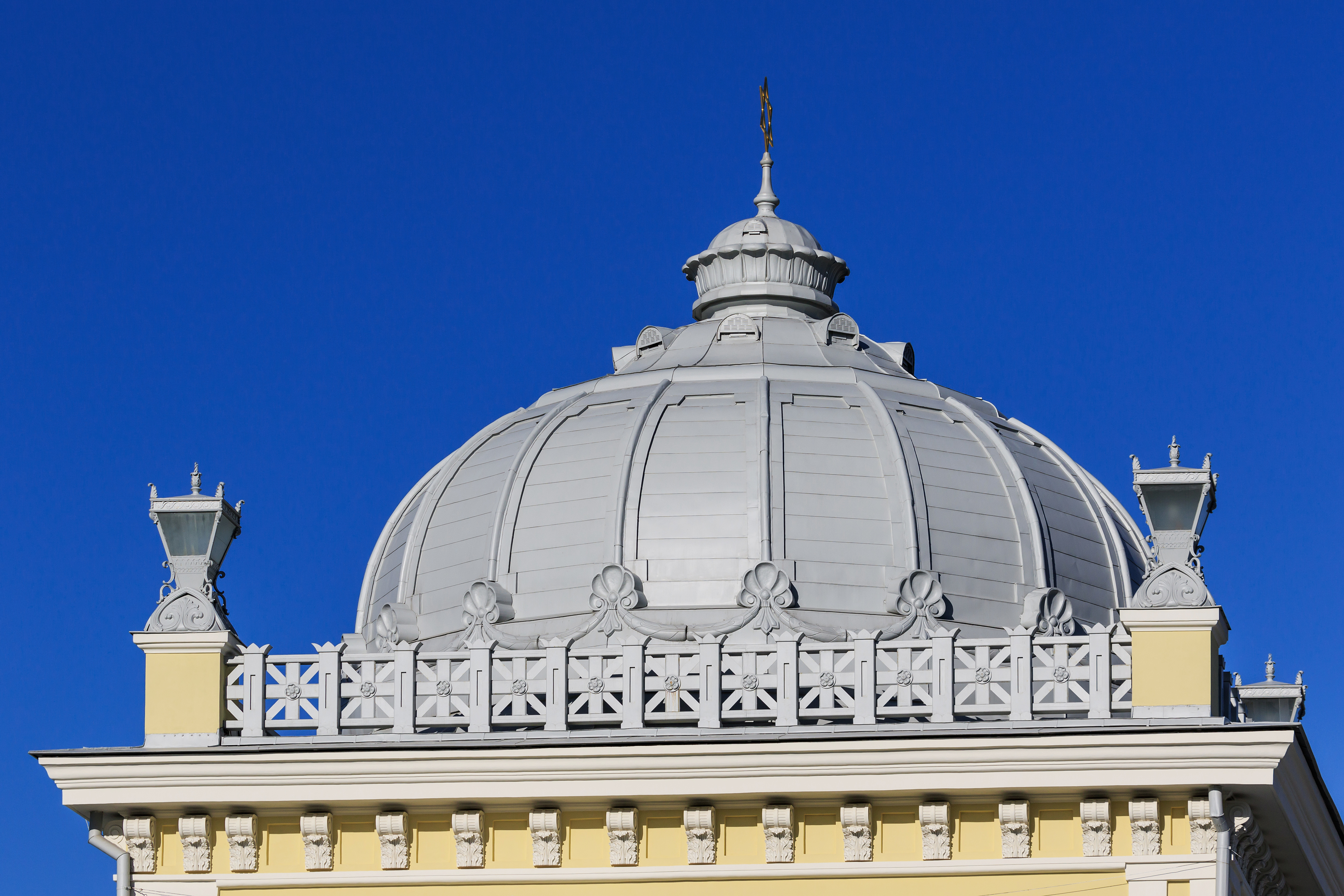 The Choral Synagogue in Moscow (Russia).